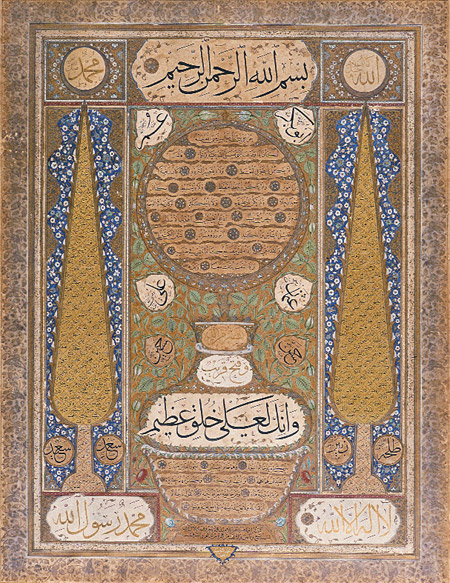 Hilye in free form (18th century), by Esma Ibret Hanim, wife and student of Mauhmud Cellaleddin. Demirören Collection.